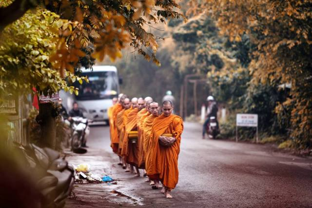 Monks of Huyen Khong Son Thuong in Hue , Vietnam alms